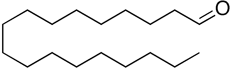 chemical structure of octadecanal (stearaldehyde)